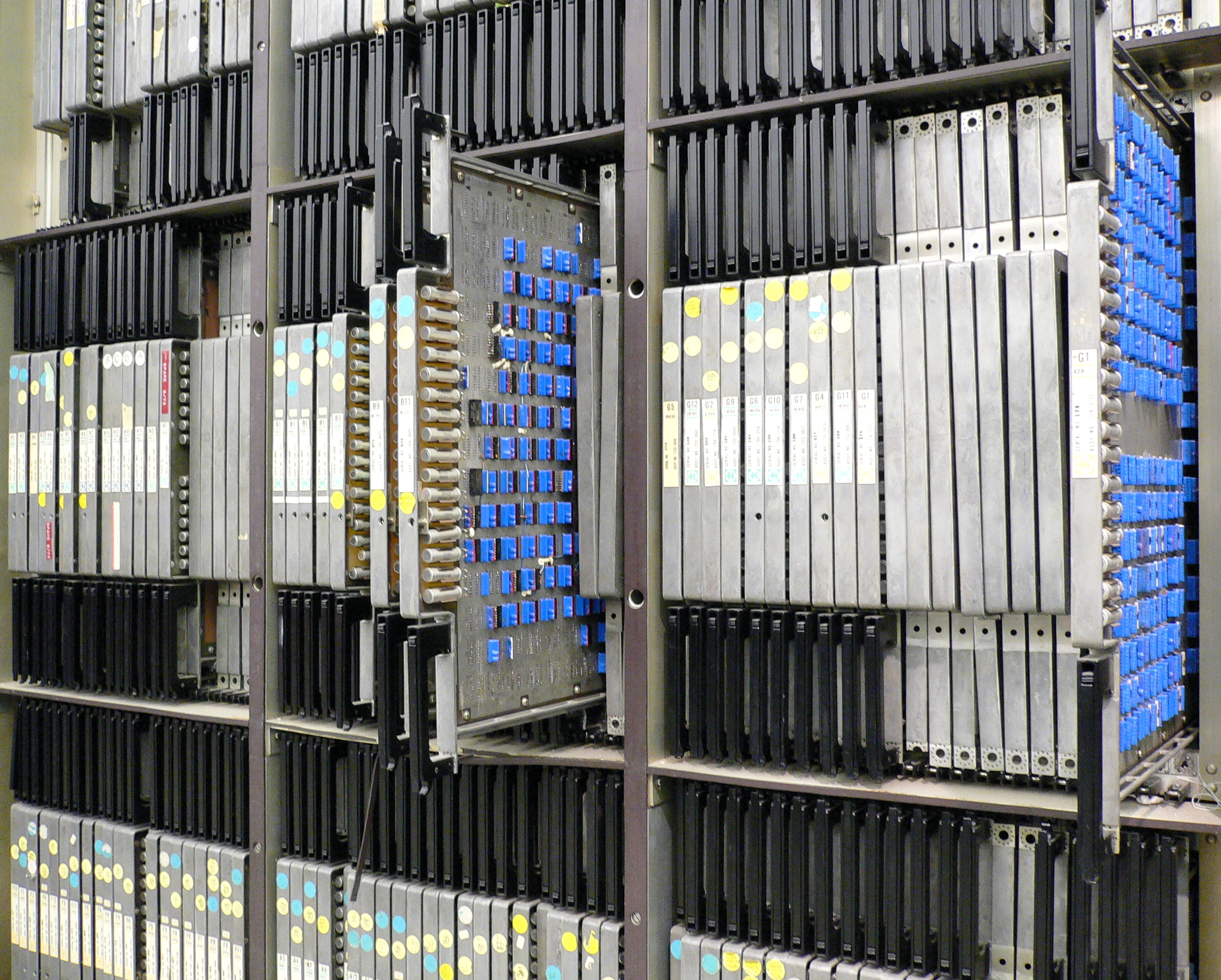 ILLIAC IV computer. In this SIMD parallel computing machine, each board has a fixed program that it would farm out to an array of Burroughs machines. It was the “cutting edge” in 1966.HAL Beta 0.66